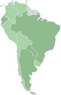 Description Teams of , - South America Date24 April 2009Sourceown work based on File:FIFA WM 2006 Teams.pngAuthor44Charles Teams of , - South America